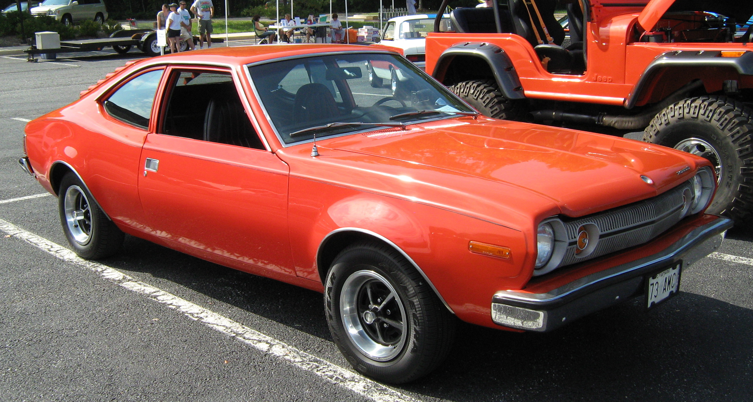 1973 AMC Hornet hatchback, a compact car made by American Motors Corporation (AMC). This body style was introduced for the 1973 model year. This is an original factory equipped car with a 304 cubic inch (5.0 L) V8 engine and manual floor shift transmission. This car is finished in "Trans Am Red" (paint code D-7). Right front side view of this sporty red AMC Hornet.